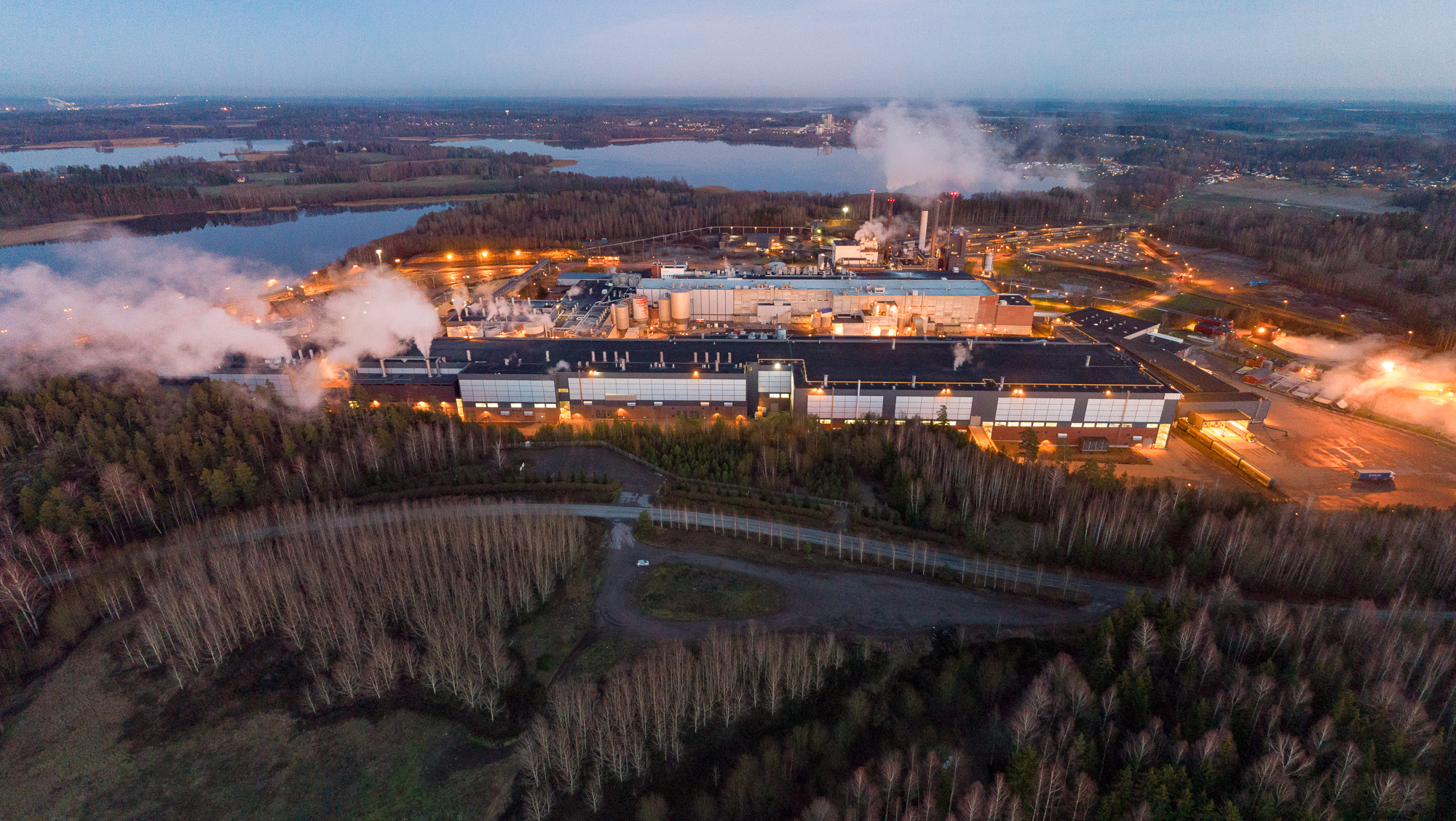 Sappi paper mill, Kirkniemi, Lohja, Finland